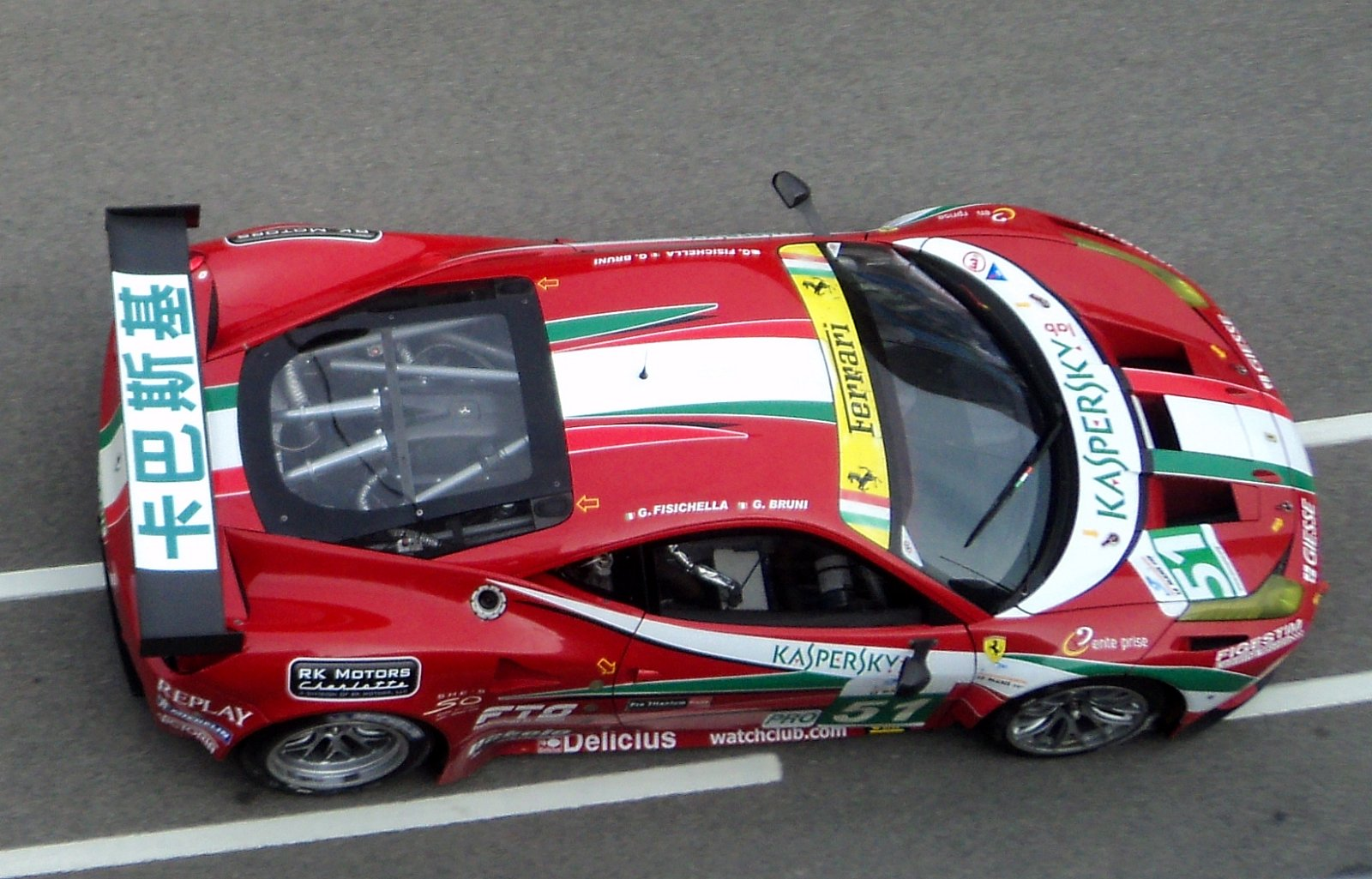 AF Corse's Ferrari F458 Italia at Zhuhai International Circuit.